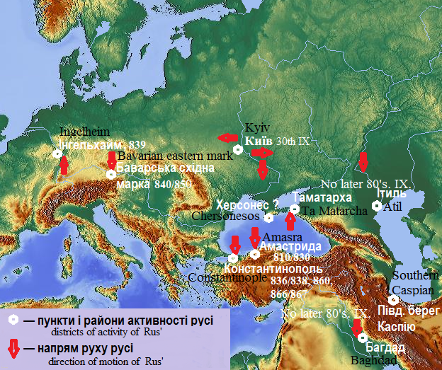 Districts of military, commercial and political activity of the Rus' people in written sources ІХ century.